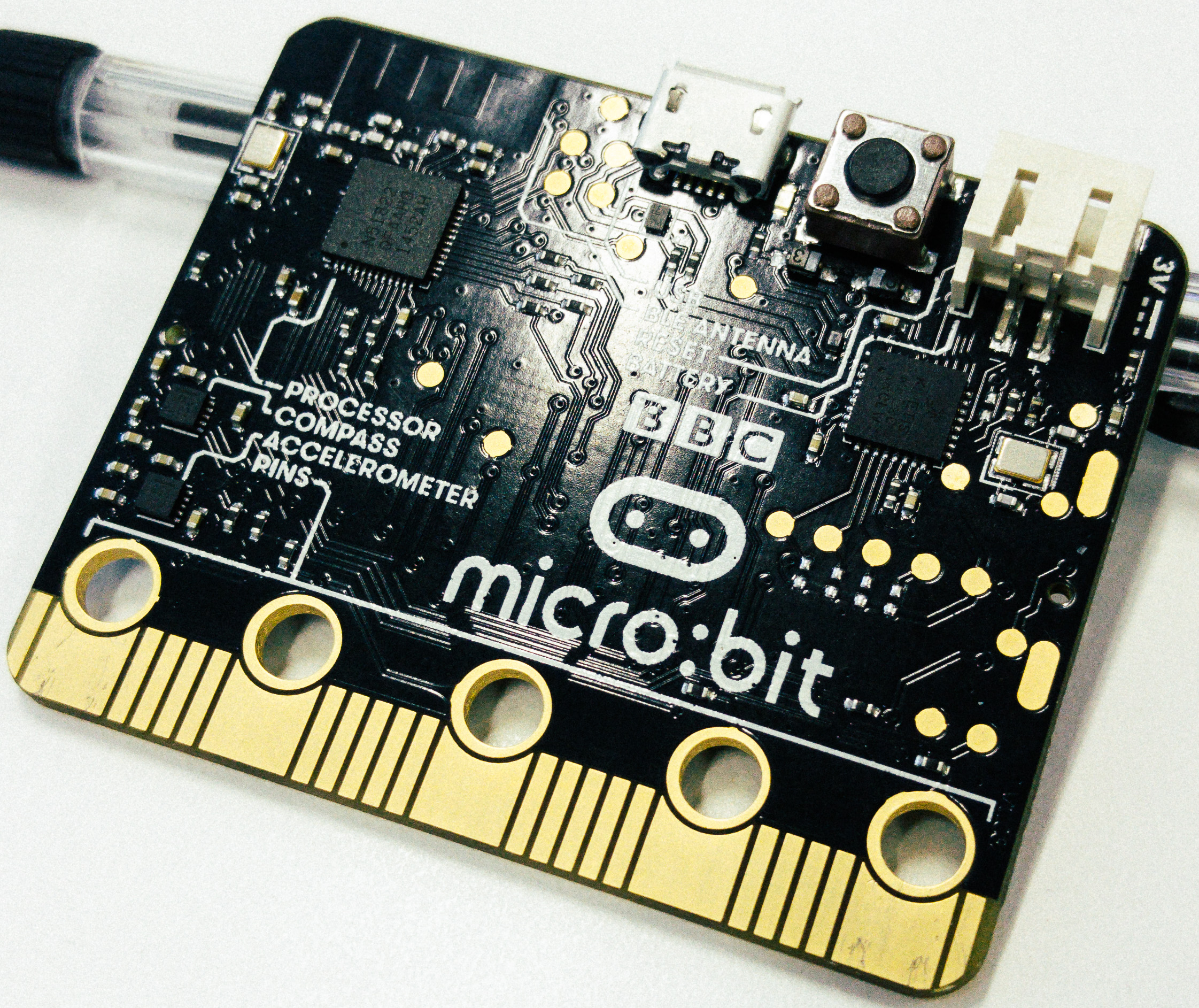 Image of educational computer developed by the BBC to teach children around 12-15 years old to write code